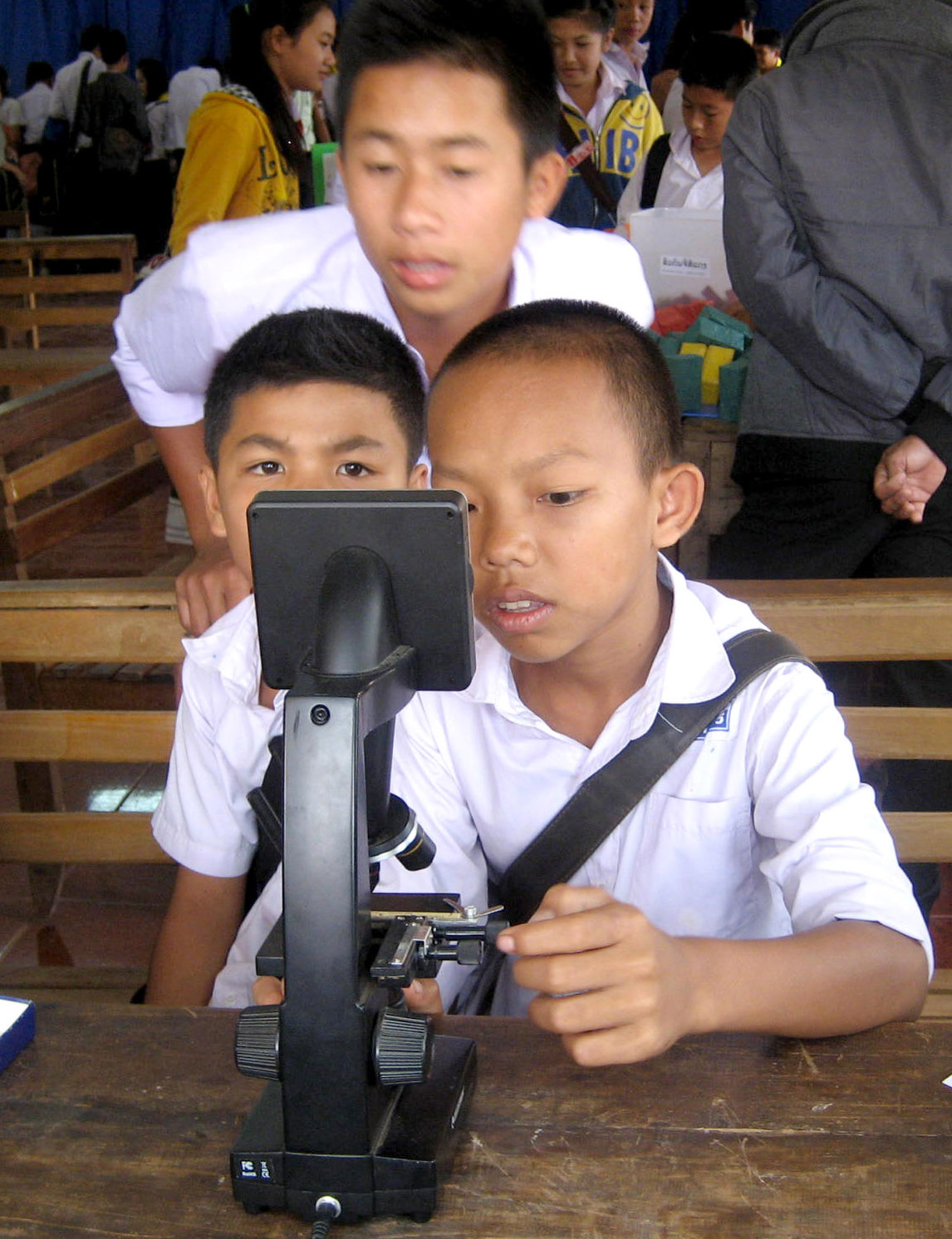 These young Lao students had never seen a microscope before. They got their first chance at a "Discovery Day" organized by Big Brother Mouse, a literacy project in Laos. Later that day they were able attend read-aloud sessions, conduct simple science experiments, examine minerals and fossils, and construct an arched bridge from building blocks. In this photo, they are looking at prepared slides of insect parts. The Celestron LCD Digital Microscope provides a crisp image and allows several student to use it together. On other occasions, the microscope is used to watch brine shrimp larva, to look for bacteria cultured from various sources, and to examine plant and insect specimens that the students themselves collect.